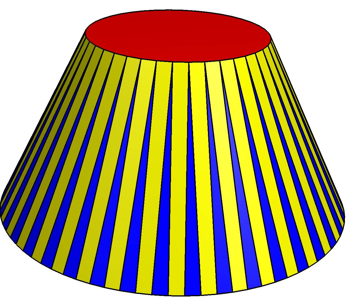 Cupola (geometry), 40-sided